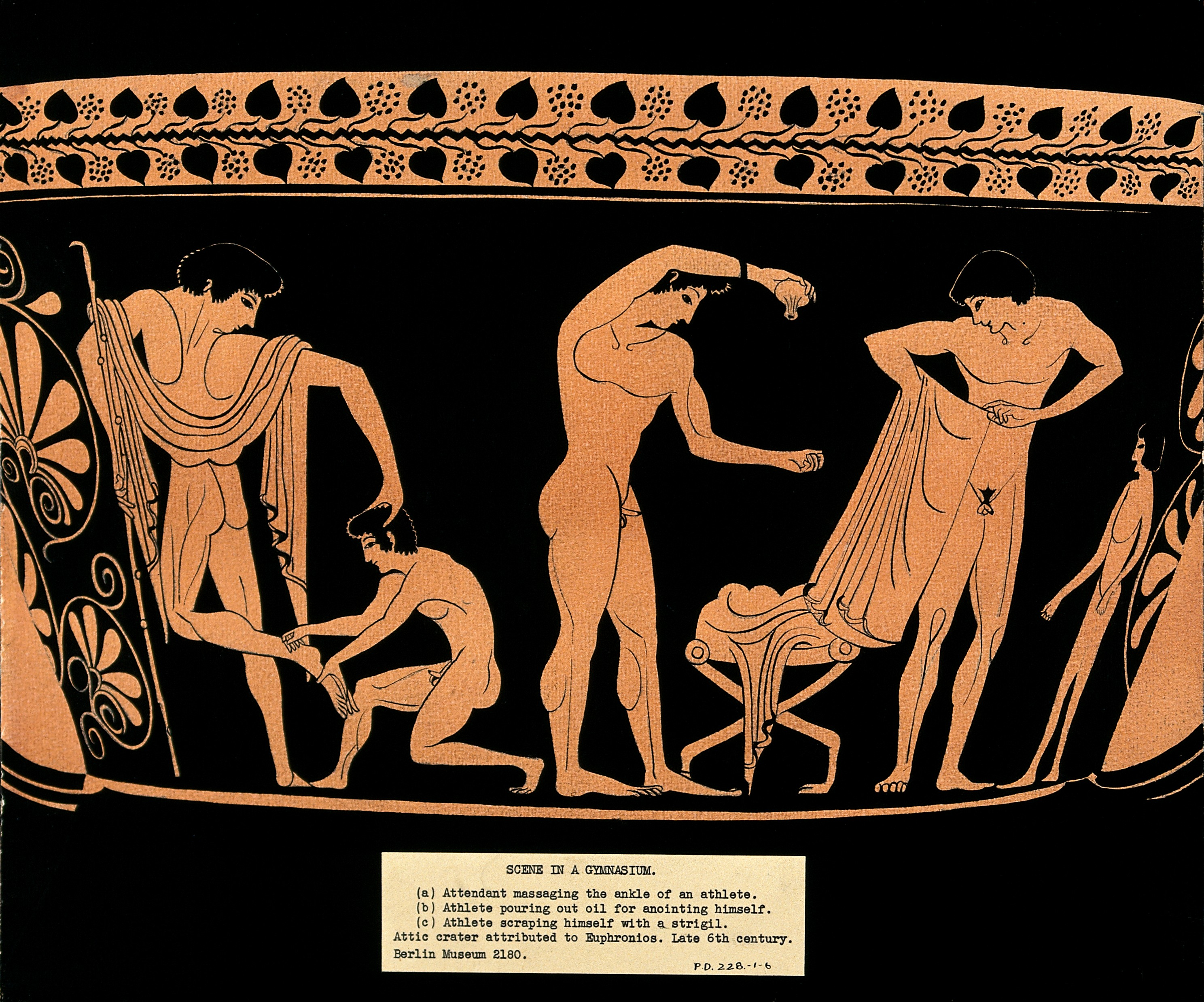 Athletes in a gymnasium. Gouache painting. Iconographic Collections